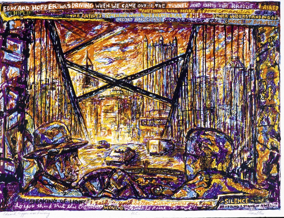 Edward Hopper Was Driving from "Lessons of the Masters," 1997 screenprint 24 x 32” Artist: Robert Qualters